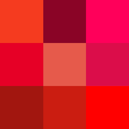 Shades of red